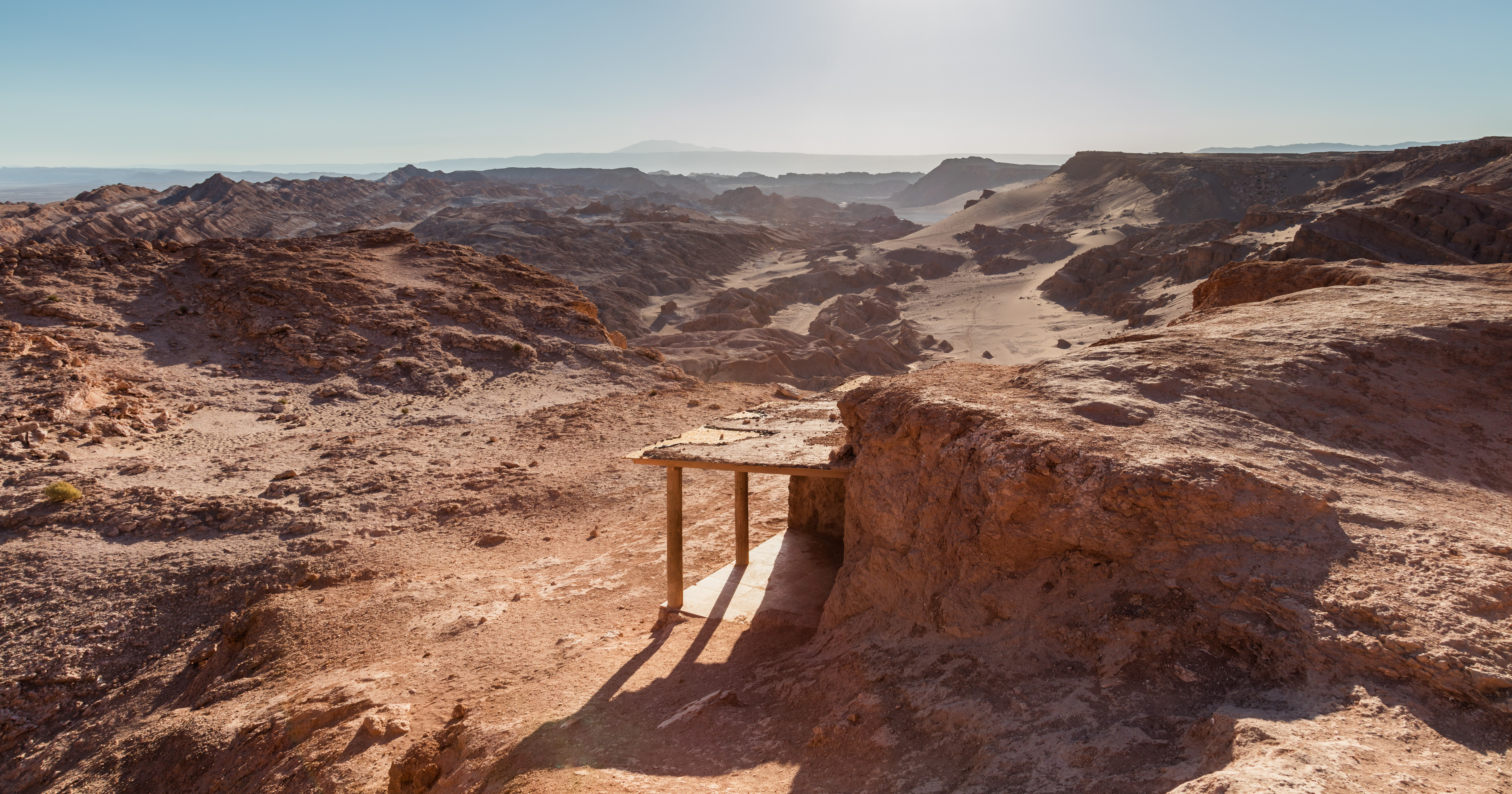 Cordillera de la Sal, San Pedro de Atacama, Chile